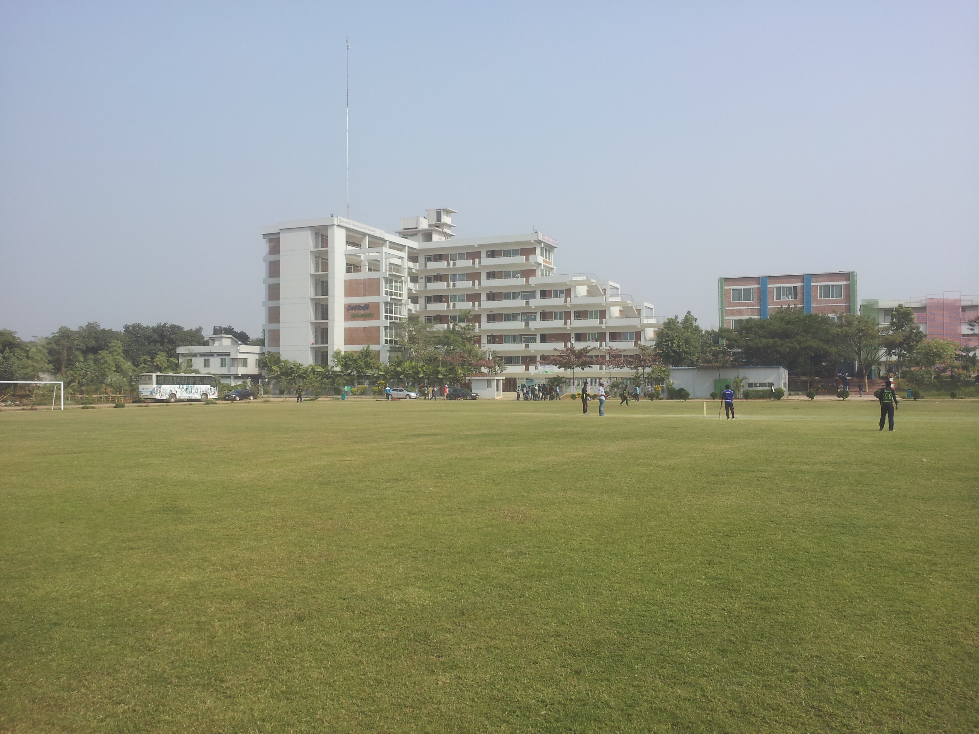 Daffodil International University Campus, Savar, Dhaka.